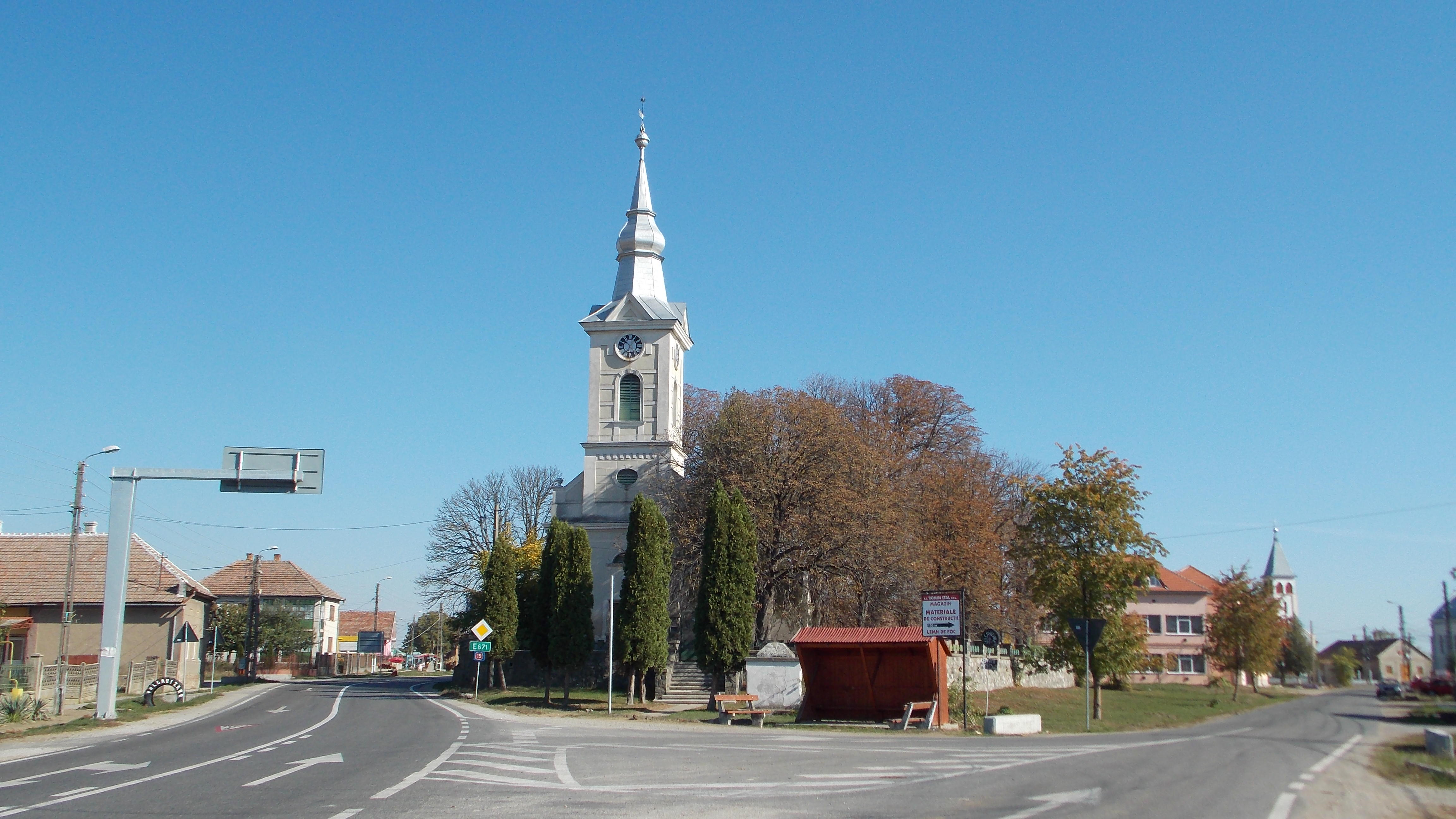 Village center with Reformed Church, Piscolt, Satu Mare county, RomaniaRomână: Centrul satului, Pișcolt, jud. Satu Mare